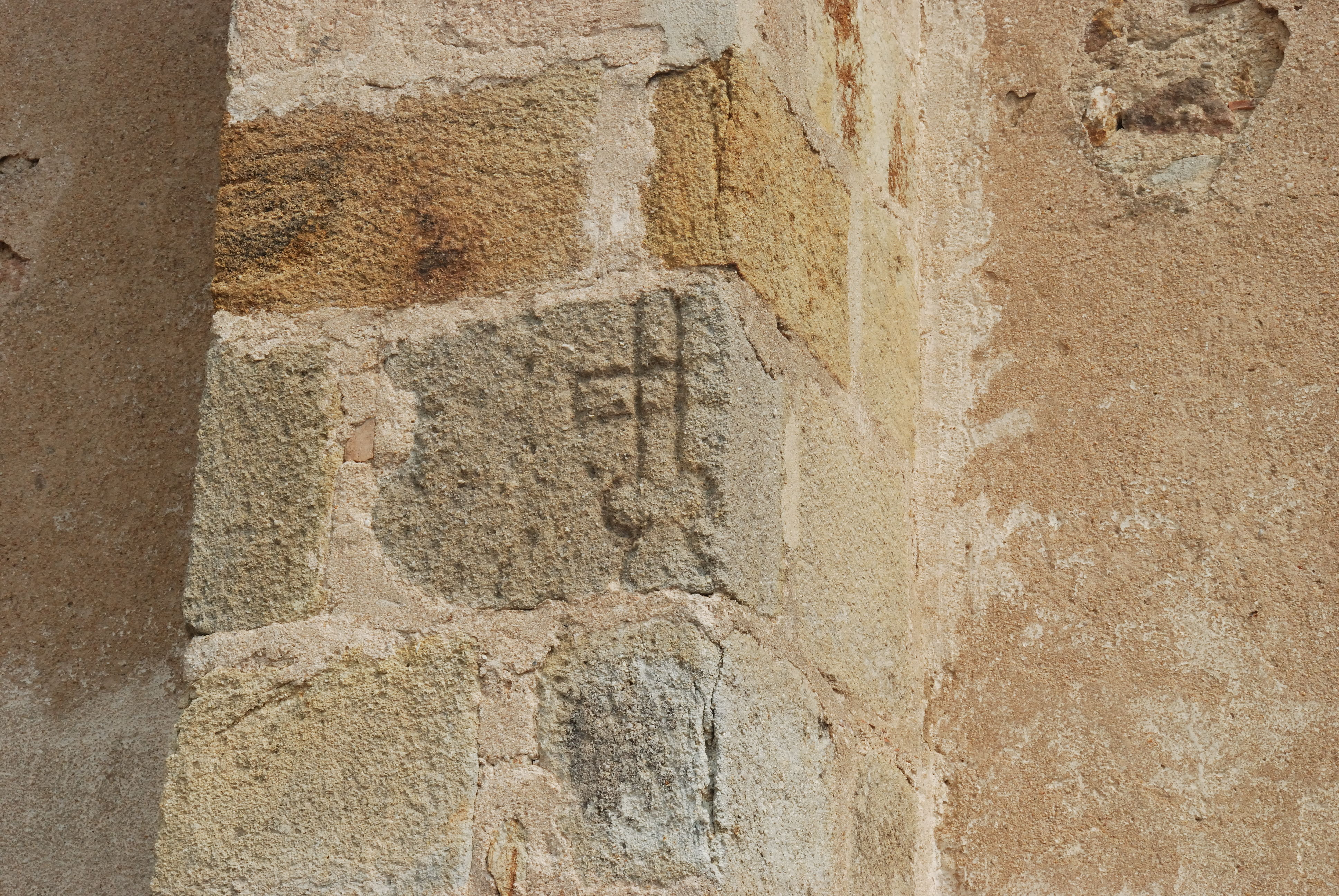 Arkose (church of Sermentizon, (Puy-de-Dôme, France)..